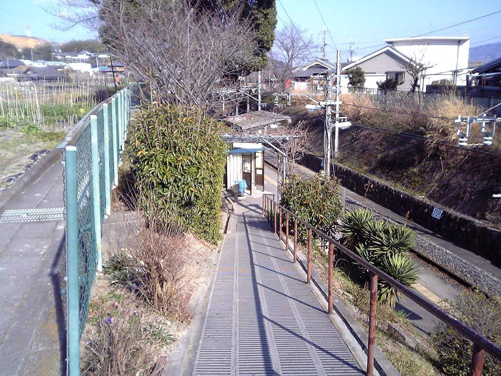 Naka-Iburi Station